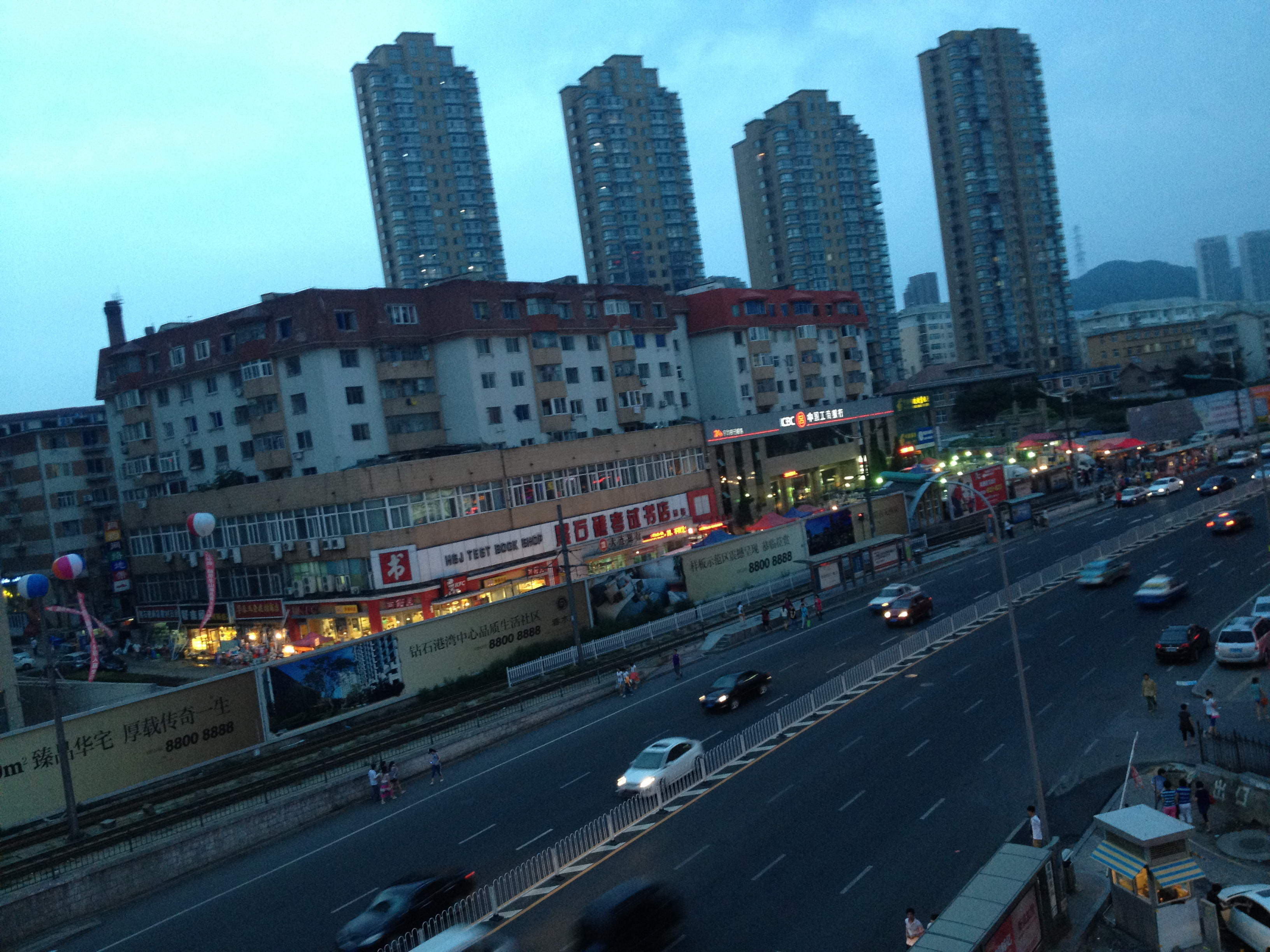 Zhongshan Road Dalian 2012-7-28